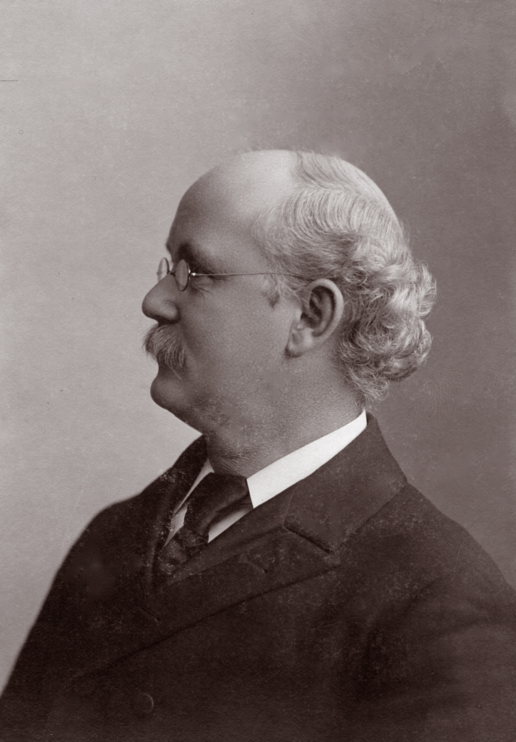 American organist Albert Augustus Stanley (1851–1932)